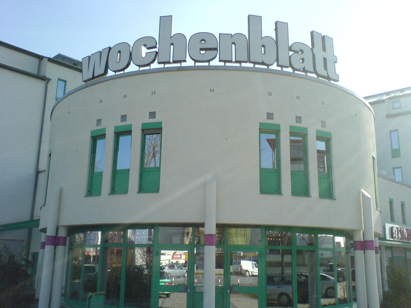 Headquarters of the "Wochenblatt" publishing house, Landshut, Bavaria, Germany